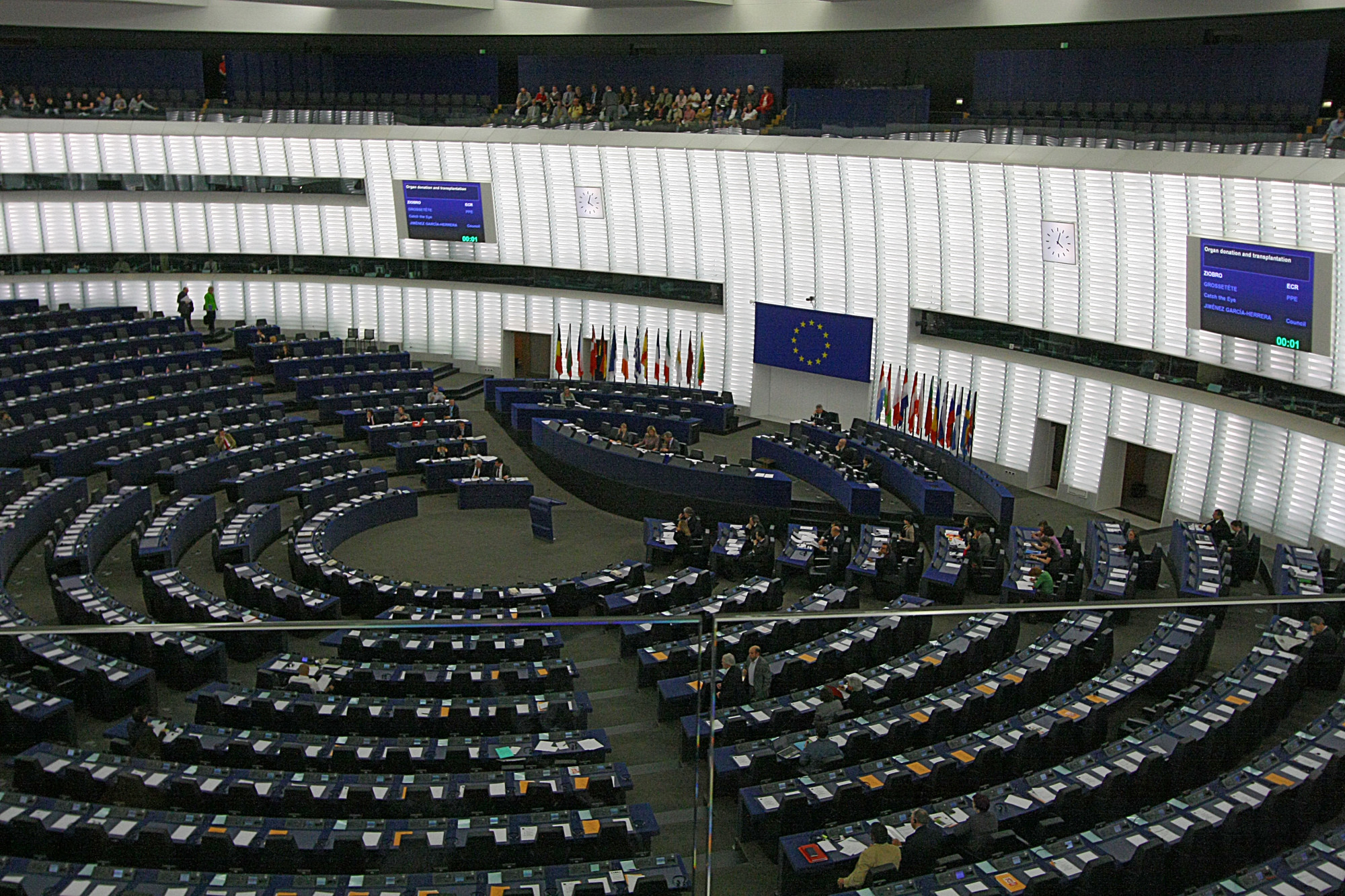 The European Parliament in debate